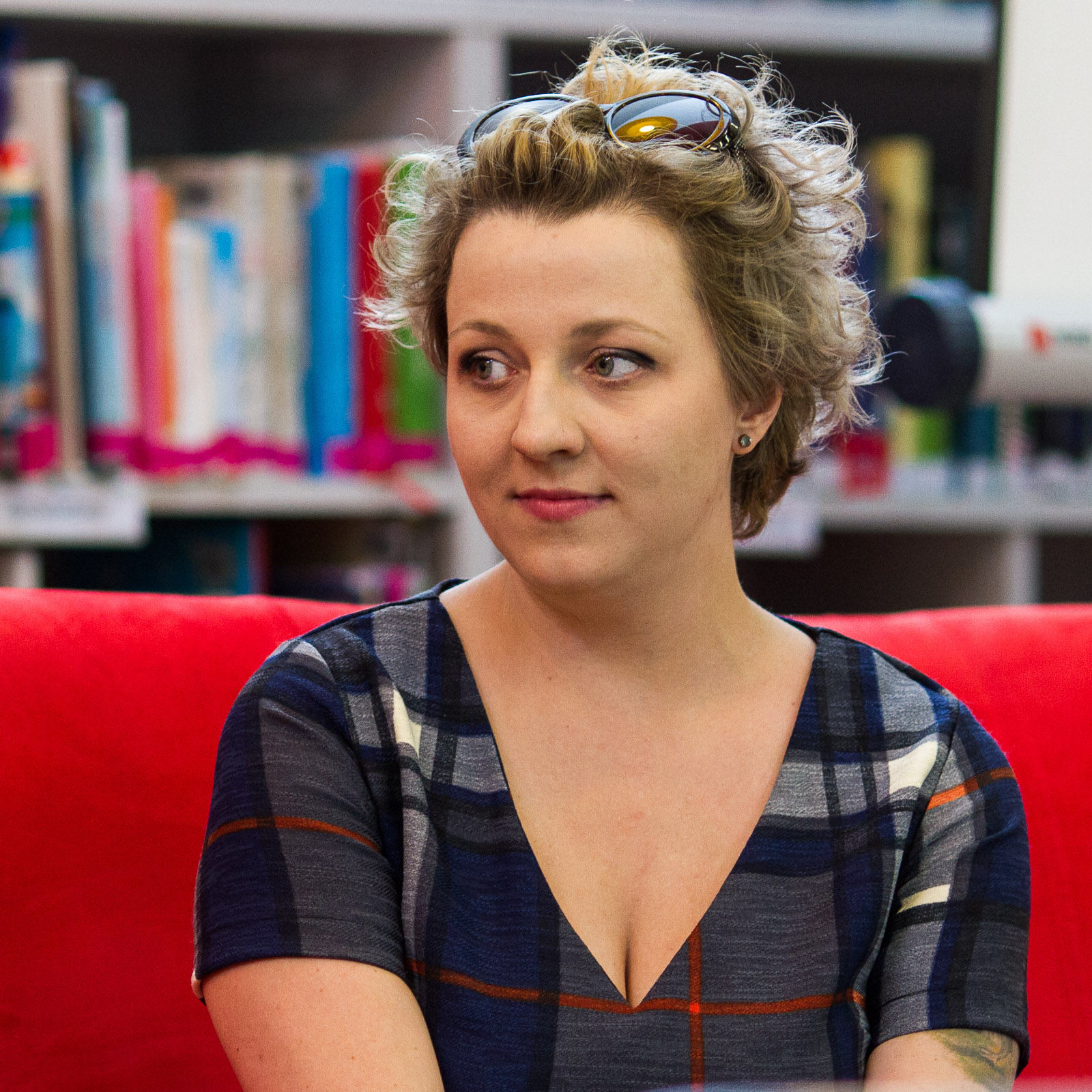 Nadia Szagdaj on Authors’ Reading Month 2015, Wrocław, Poland